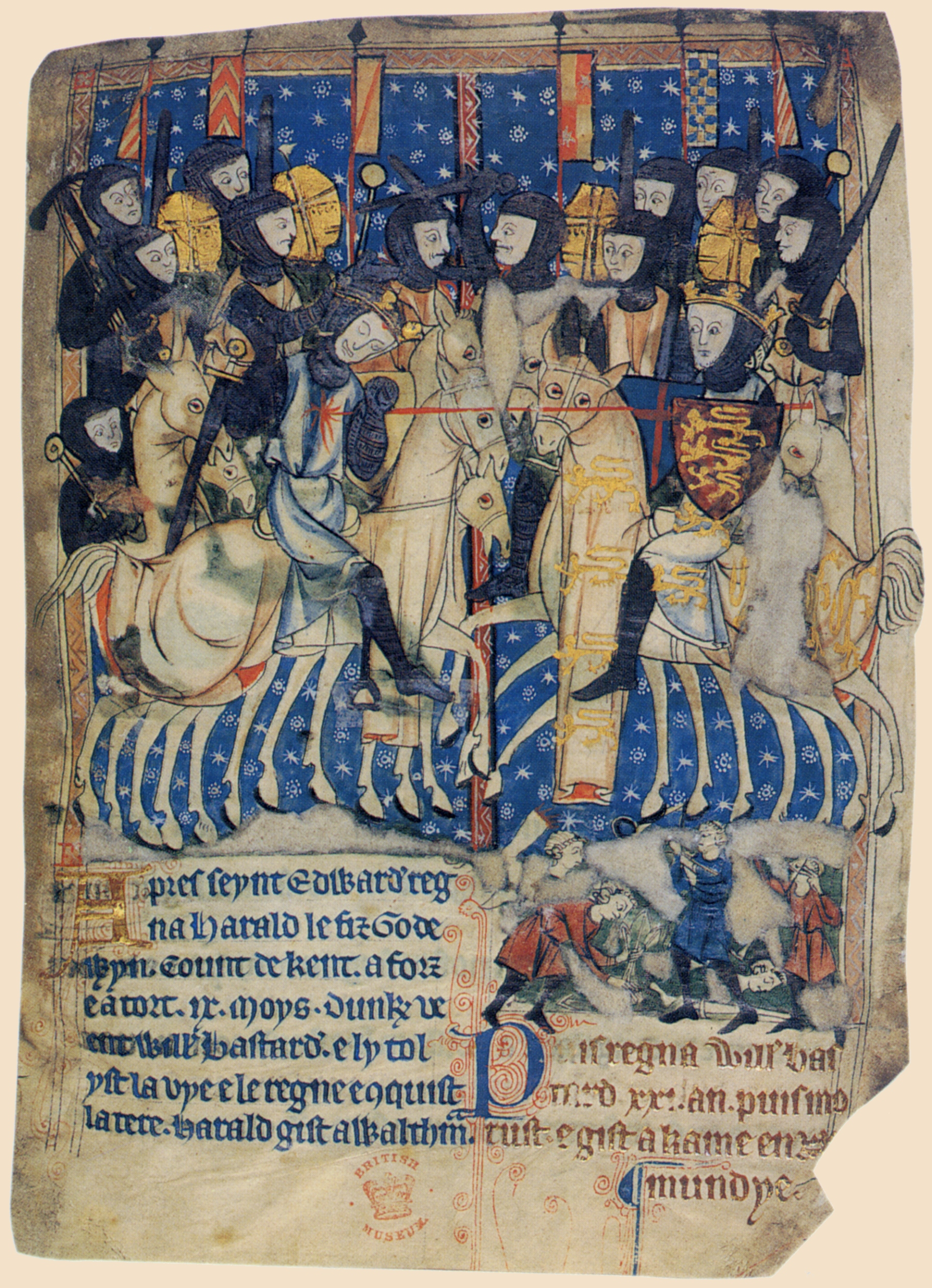 Duke William of Normandy, the Conqueror, stabs King Harold of England at the Battle of Hastings as they fight on horseback. England chronicle in French of circa 1280-1300 at British Library.